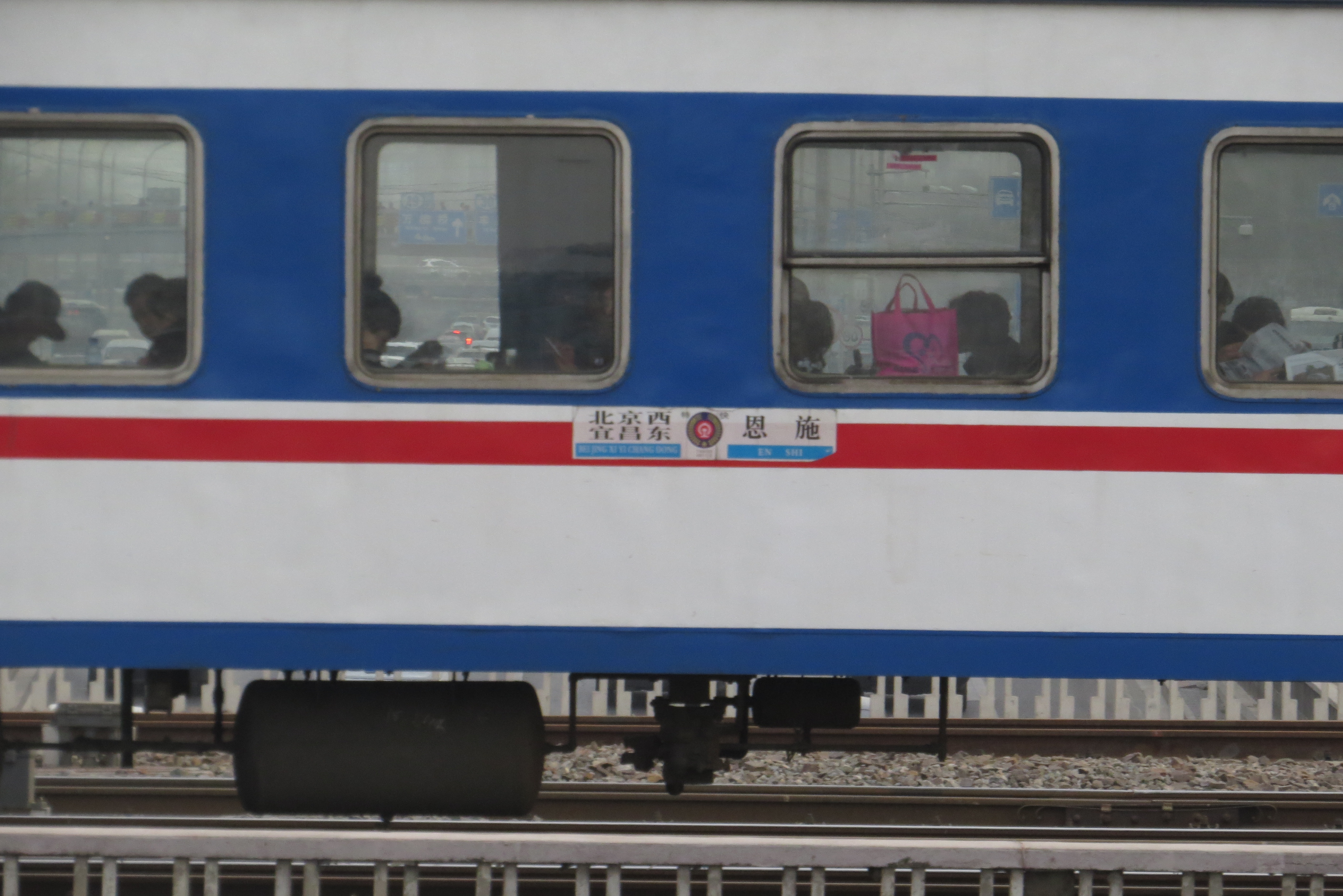 One of those YZ25Ks.